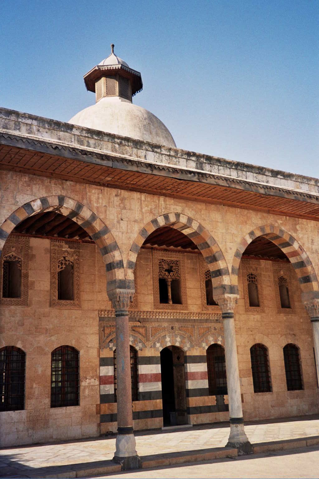 not to be confused with the azem palace in damascus. this azem palace was built by the same turkish pasha as the damascene one. before he was governor of syria in damascus, he was a regional ruling based in hama. the damascus palace came later and was basically a larger version of his original palace in hama.